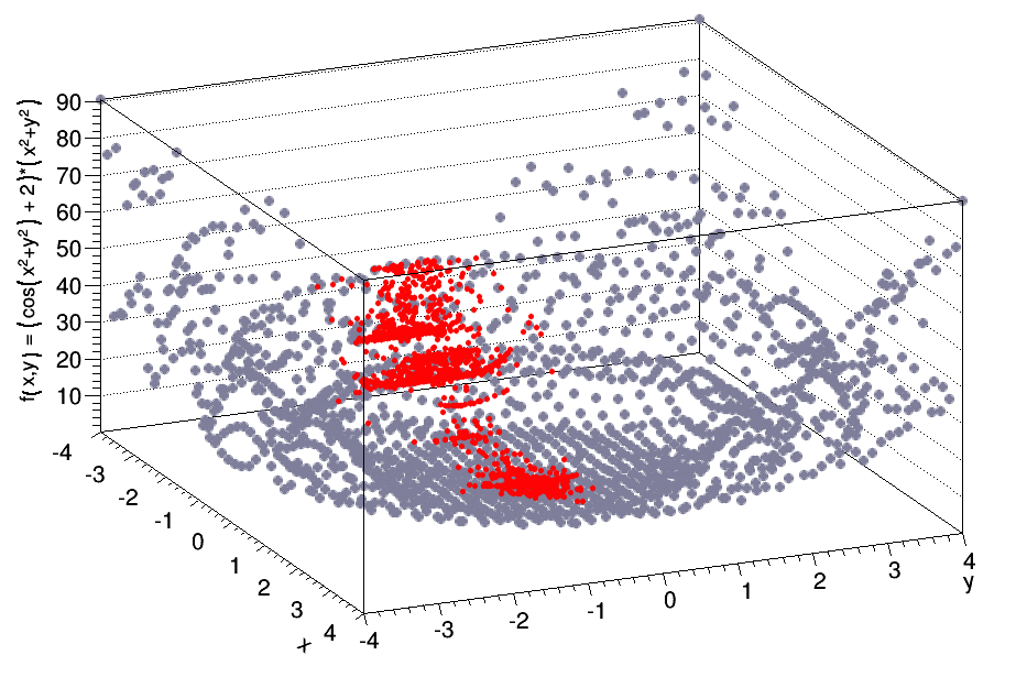 Parameter scan of the "noisy parabola" in two dimensions. Created using the Geneva library of distributed parametric optimization algorithms.